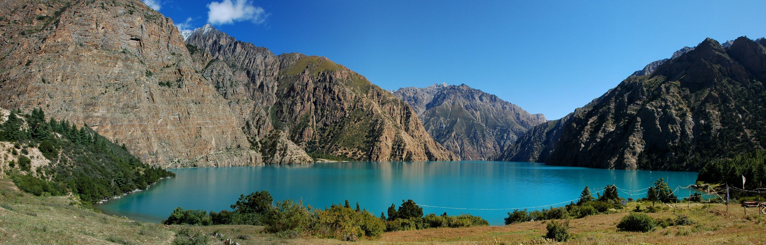 Phoksumdo lake in Dolpo